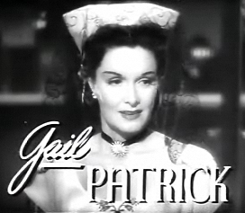 Cropped screenshot of Gail Patrick from the trailer for the film Twice Blessed